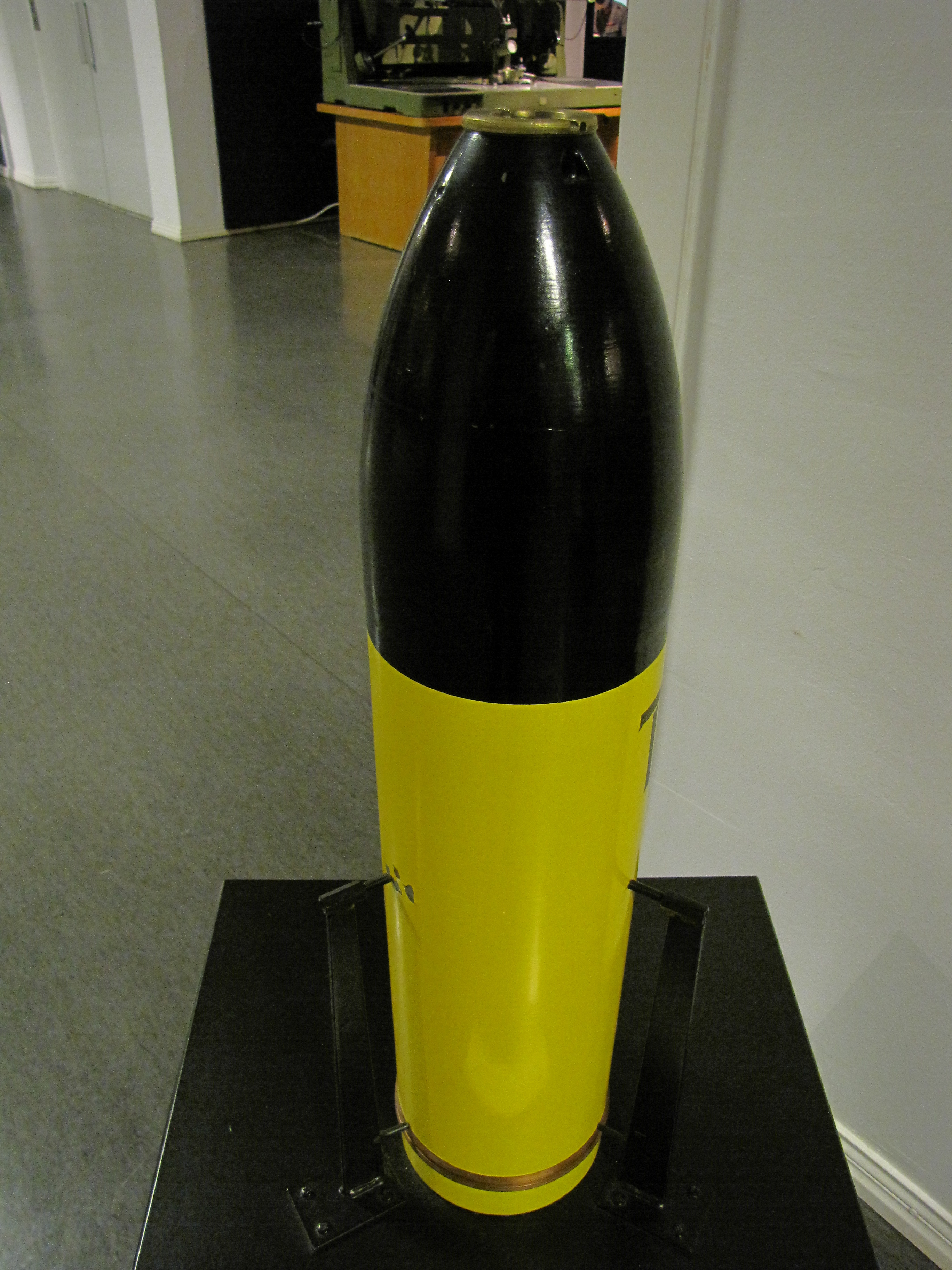 150 mm artillery shell in Hämeenlinna artillery museum. This type of ammunition was used in heavy howitzers 15 cm schwere Feldhaubitze M 15 and 15 cm Positionshaubits m 06 by the Finnish army. Finnish designation 150 mm long, old type, trotyl shell, fuze hole 46/50, model R/12. Weight approx. 41 kg.